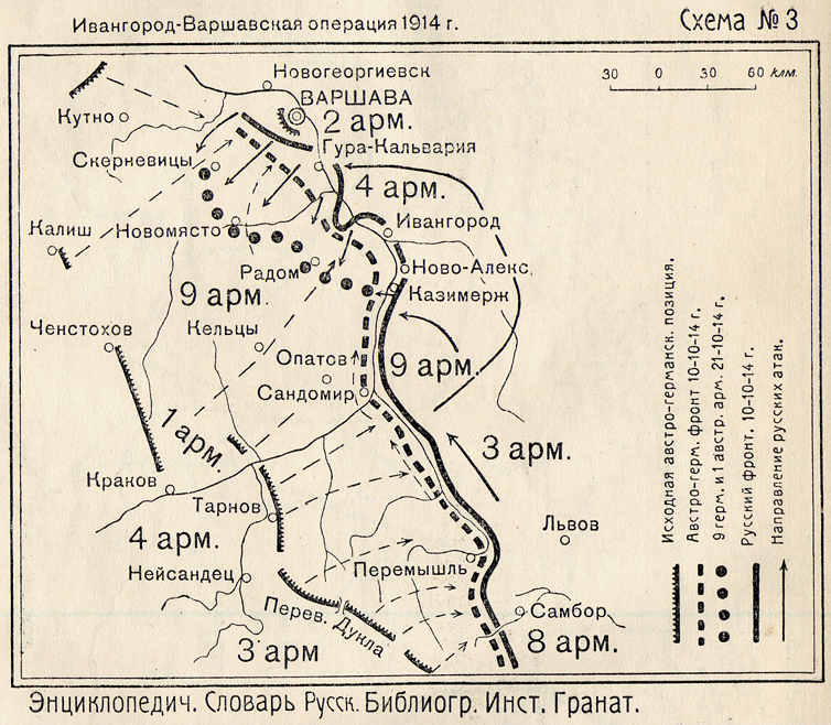 Battle of Warsaw-Ivangorod. 1914